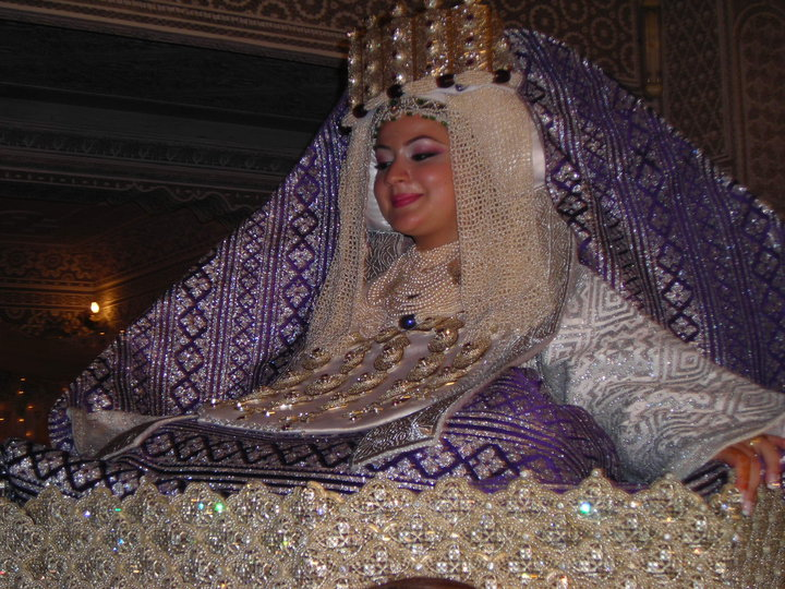 Mariage Morocoo